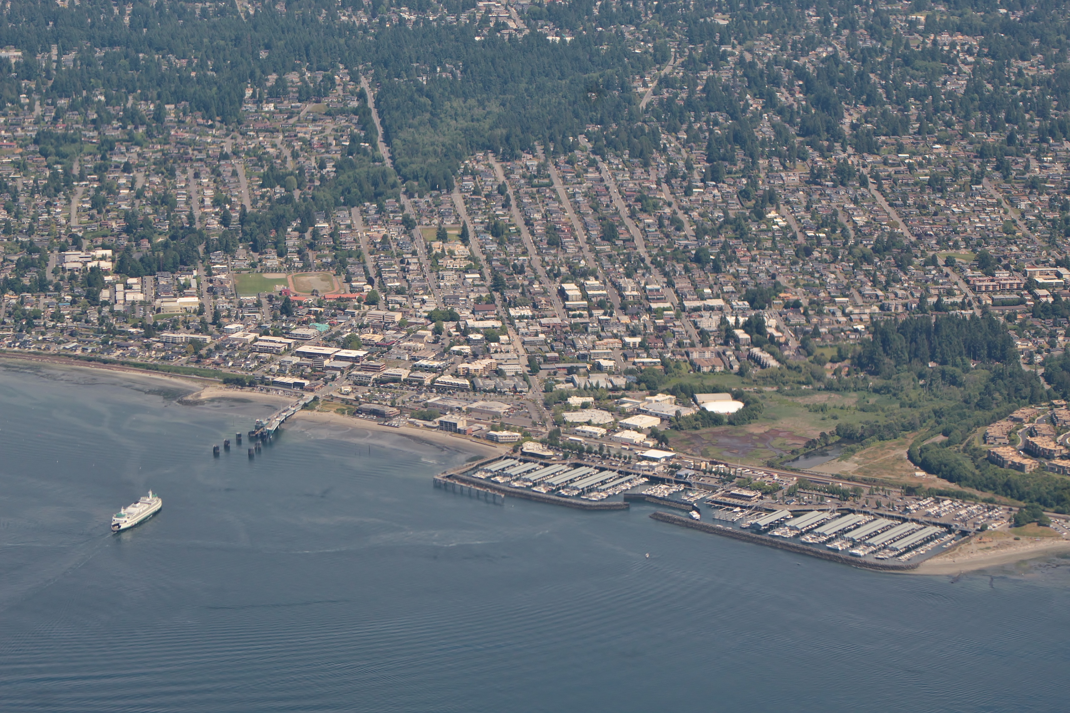 An aerial view of downtown Edmonds, seen from the west.